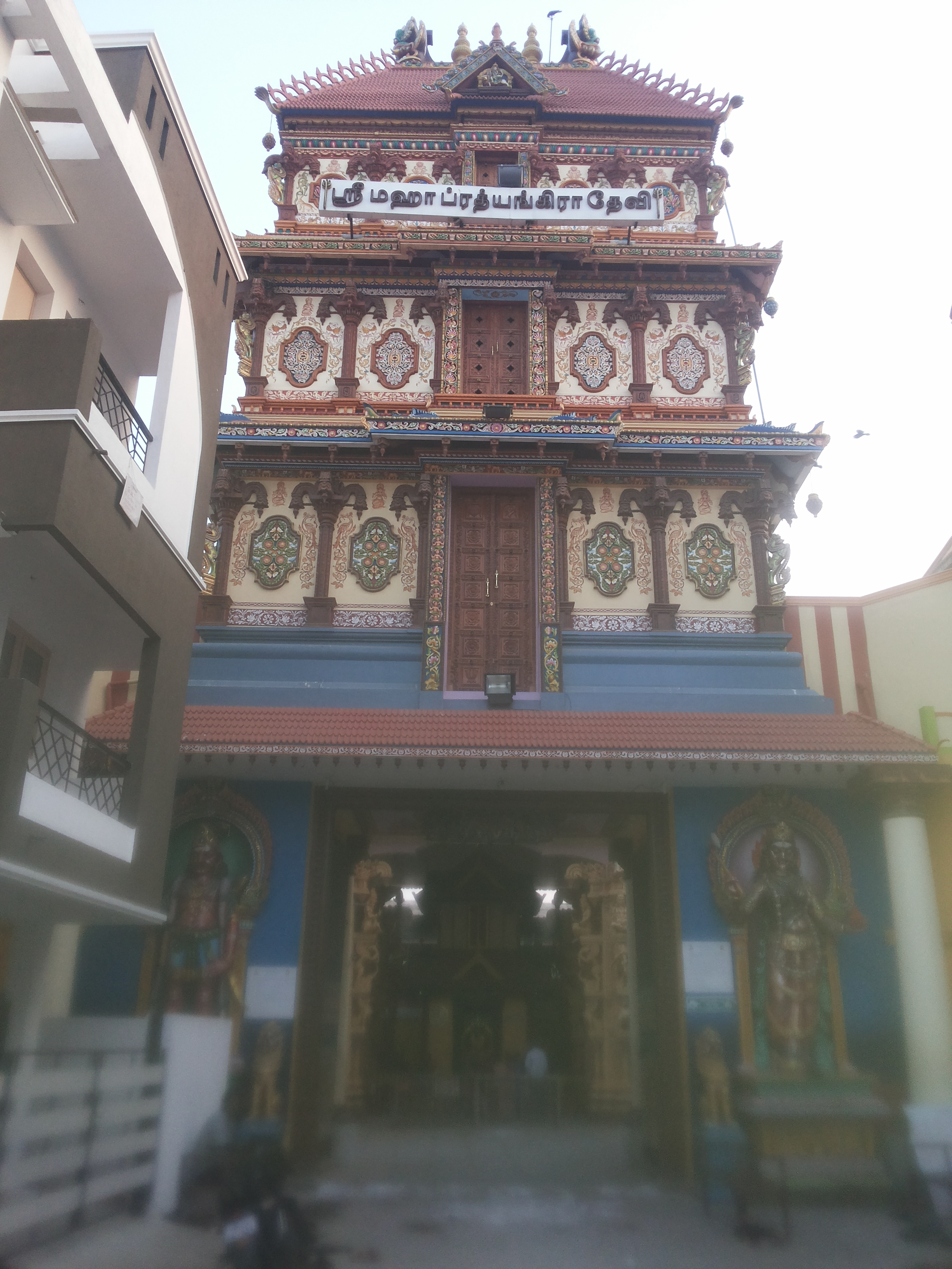 The picture of the Prathyangira Devi Temple in Chennai taken from the front side which i have taken from my own camera while on visiting the temple on 20th February, 2014. Below is the complete description of the image taken: Camera manufacturer : Samsung Camera model : GT-I9082 Exposure time : 1/100 sec F-number : f/2.6 ISO speed rating : 80 Date and time of data generation : 17:51, 20th February 2014 Lens focal length : 3.7mm Orientation : 90 Horizontal resolution : 72 dpi Vertical resolution : 72 dpi Software used : GT-I9082 Android 4.2.2 File change date and time : 17:51, 20th February 2014 Y and C positioning : Co-sited Exposure Program : O08B0SAGD01 (Microsoft Windows Photo Viewer) Exif version : 0220 Date and time of digitizing : 17:51, 20th February 2014 Image compression mode : 2 Exposure bias : 0 Maximum land aperture : 2.8102 Metering mode : Center Weighted Average Light source : Unknown Flash : Yes Color space : sRGB Custom image processing : Normal process Exposure mode : Aperture Priority White balance : Auto white Digital zoom ratio : 1 Focal length : 4 mm Scene capture type : Portrait Contrast : Normal Saturation : Normal Sharpness : Normal Subject distance range : Unknown Latitude : 12:53:54.26999 Longitude : 80:14:7.01